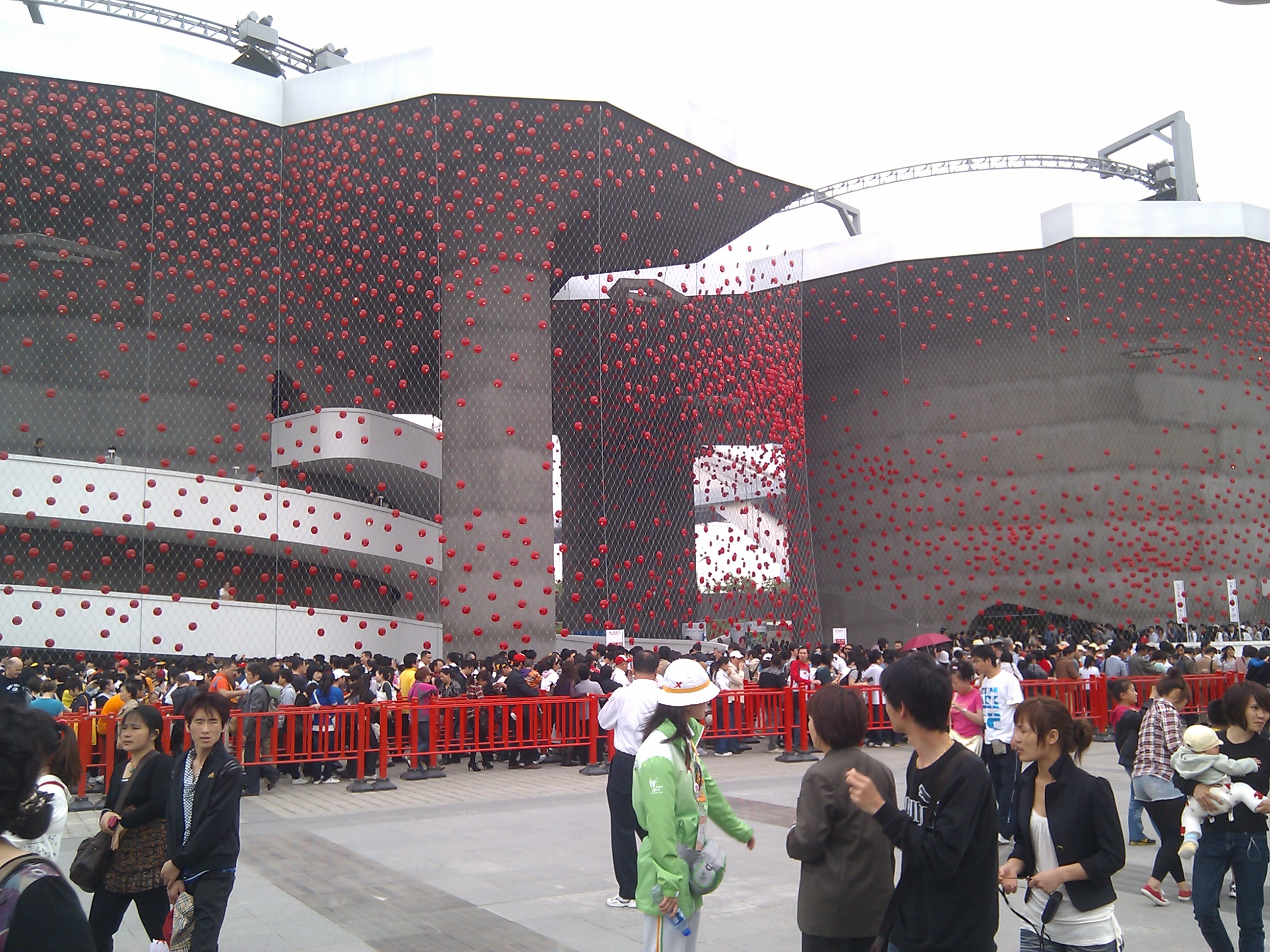 Switzerland Pavilion of Shanghai Expo